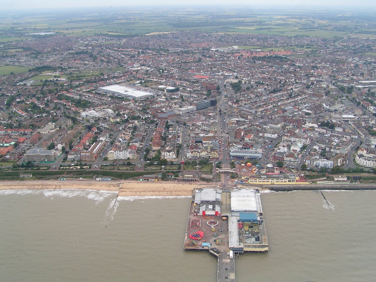 Clacton-on-Sea sea-front and town center. Photo by sannse, 26 June 2004.